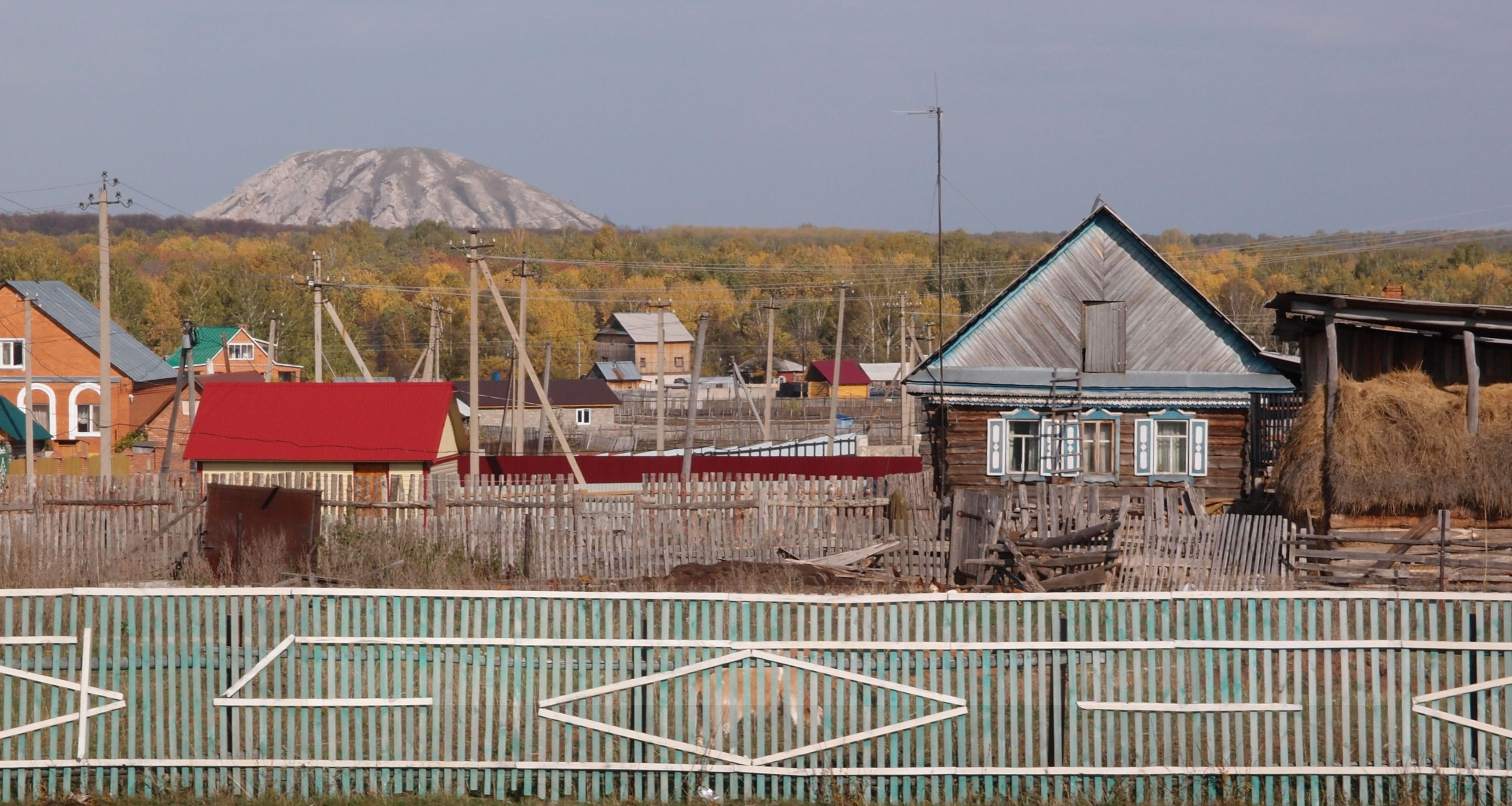 Ishimbai rayon